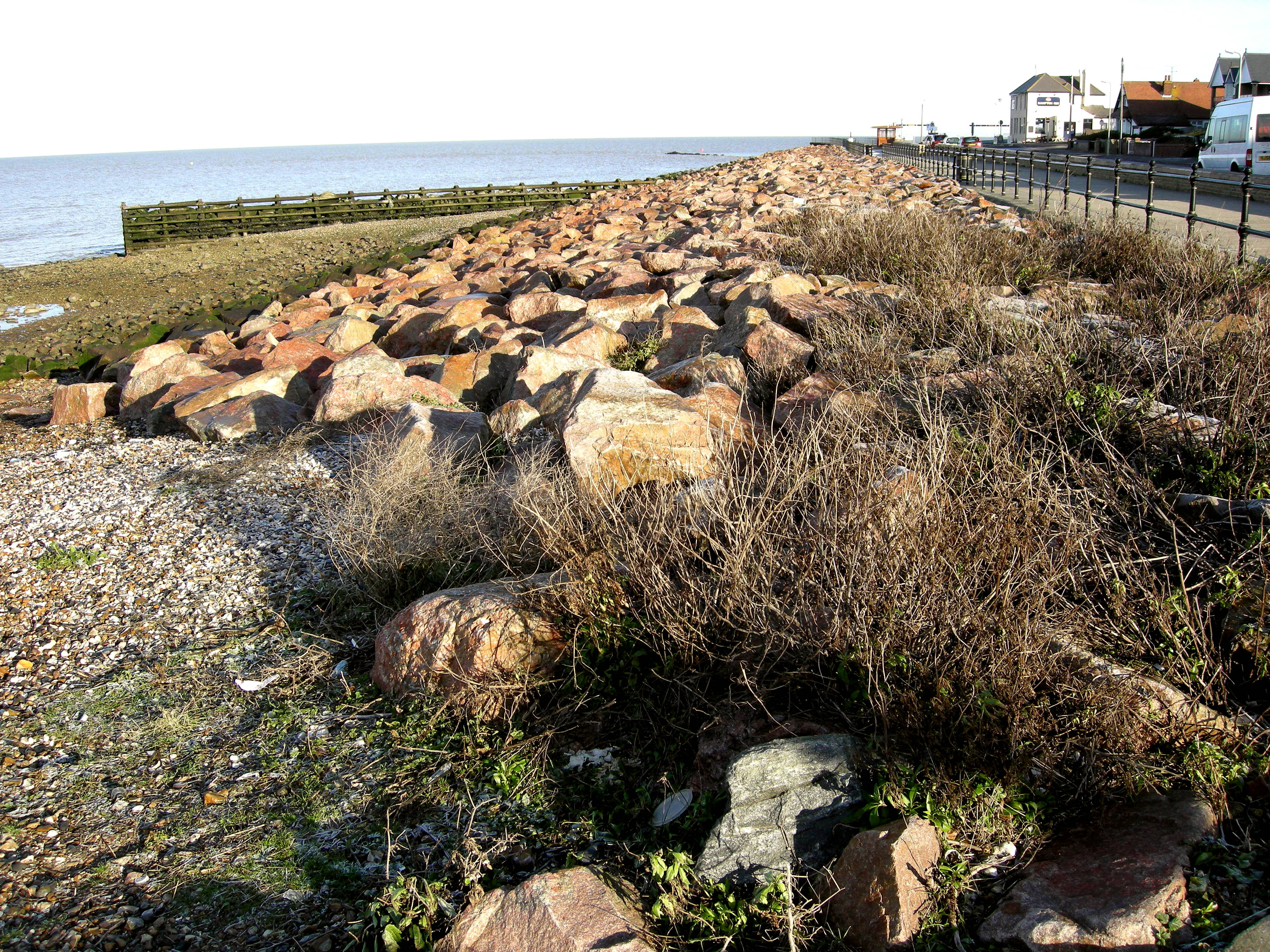 Site of abandoned and drowned village Hampton-on-Sea, Herne Bay, Kent, England. Source of identification of site: Martin Easdown, Adventures in Oysterville, (Michael's Bookshop, Ramsgate, 2008)